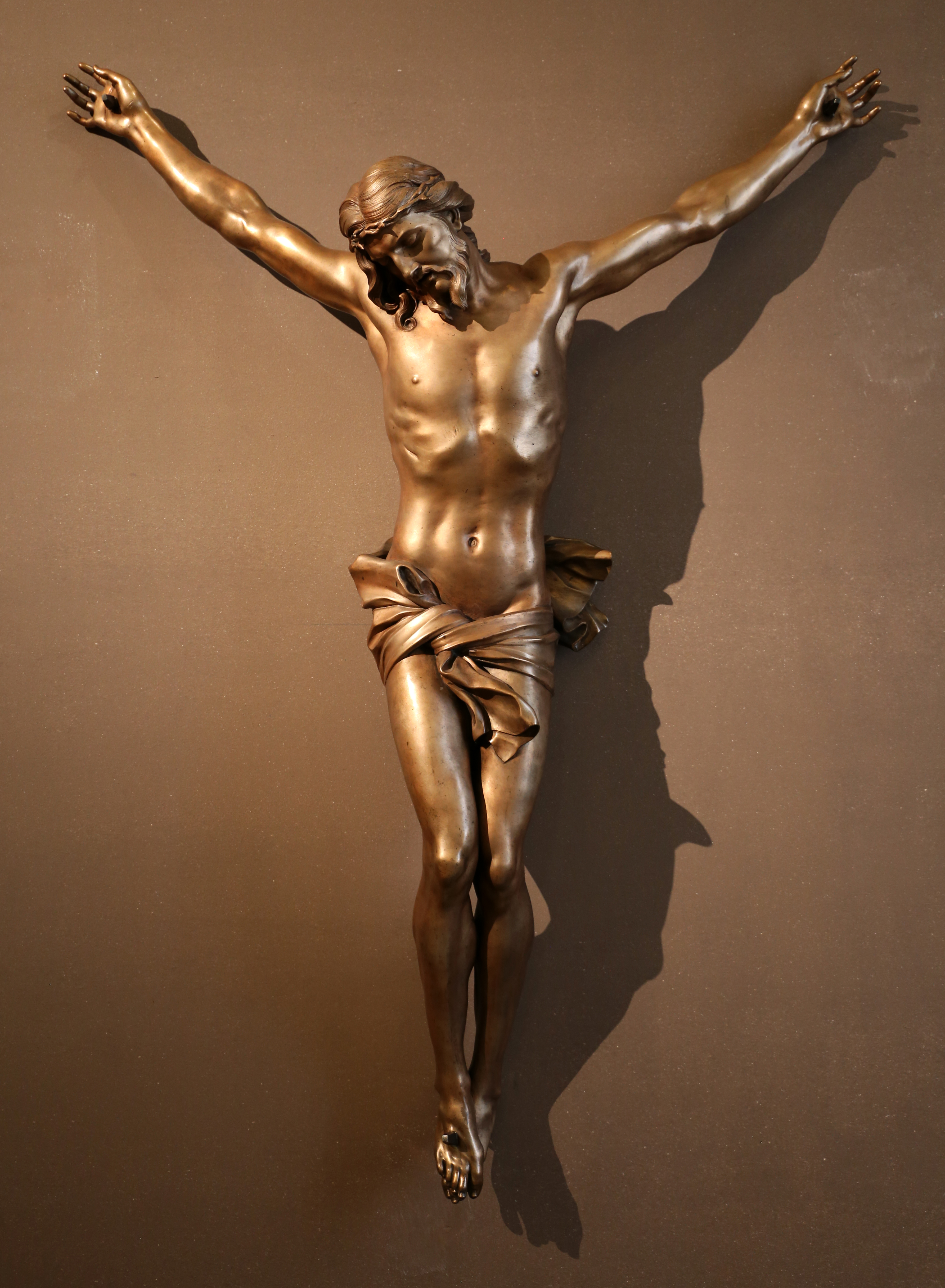 Mostra Gianlorenzo Bernini, Roma 2018